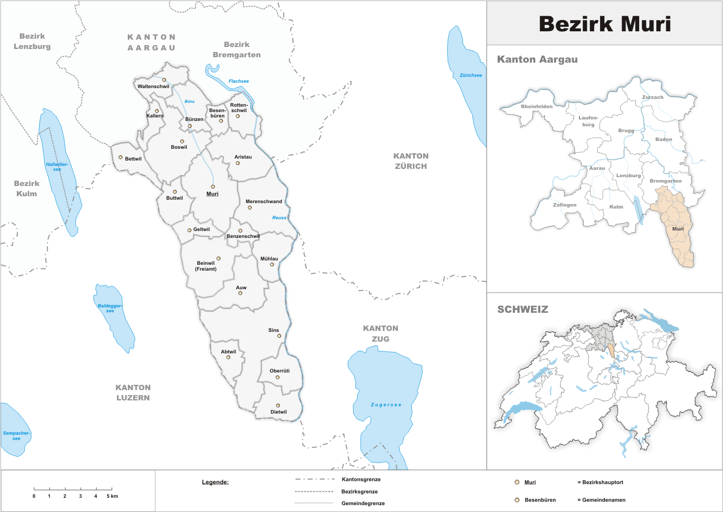 Municipalities in the district of Muri